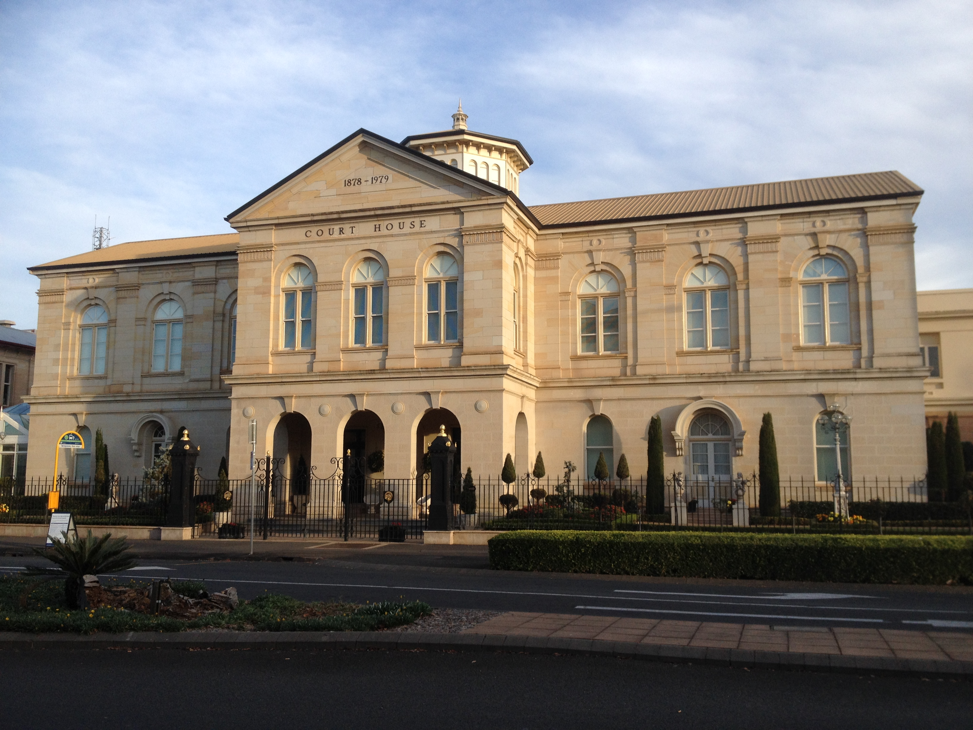 Former Toowoomba Court House at 90 Margaret Street, Toowoomba